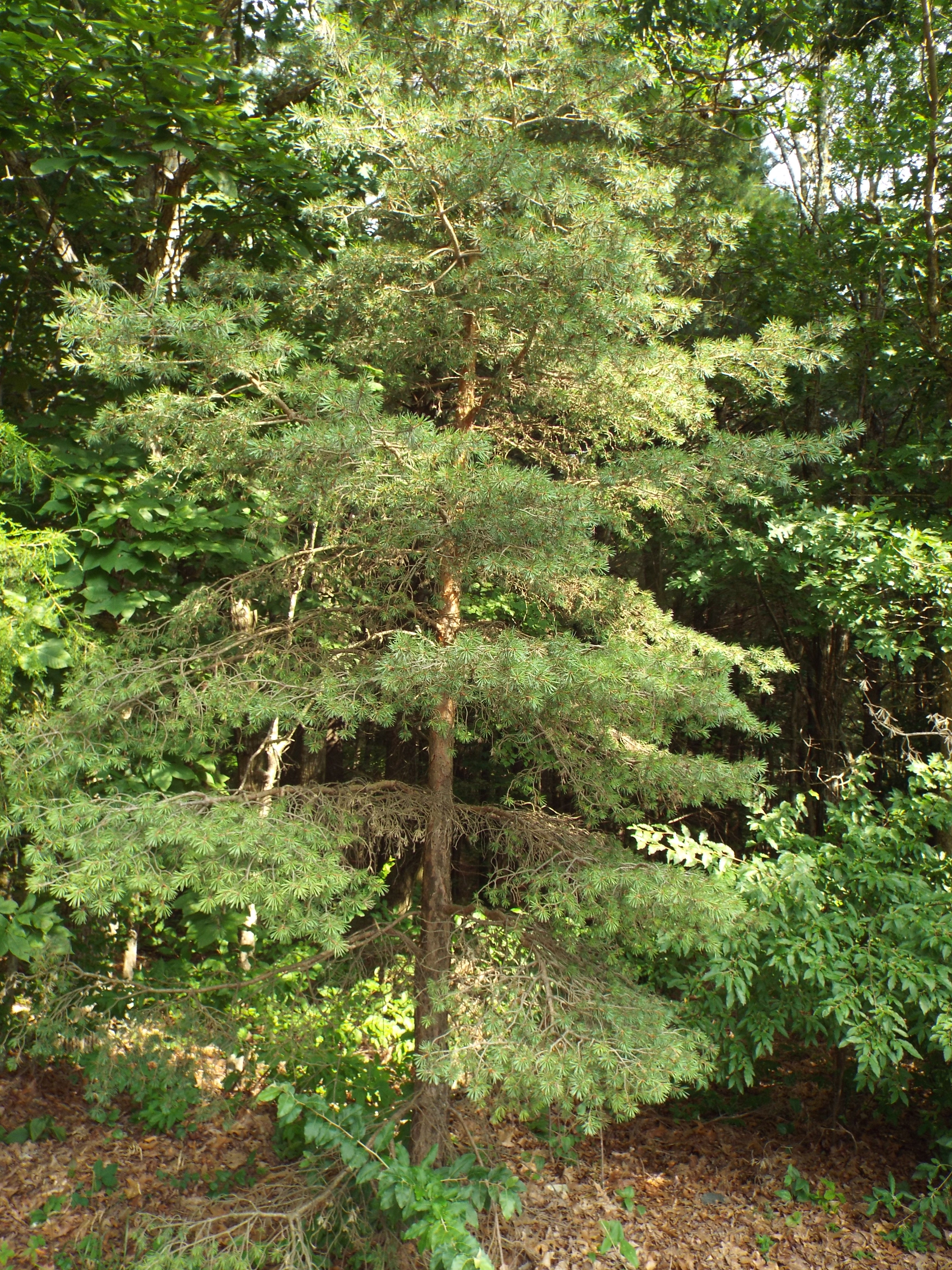 Pinus sylvestris Scots Pine, cultivated in Altamount, TN